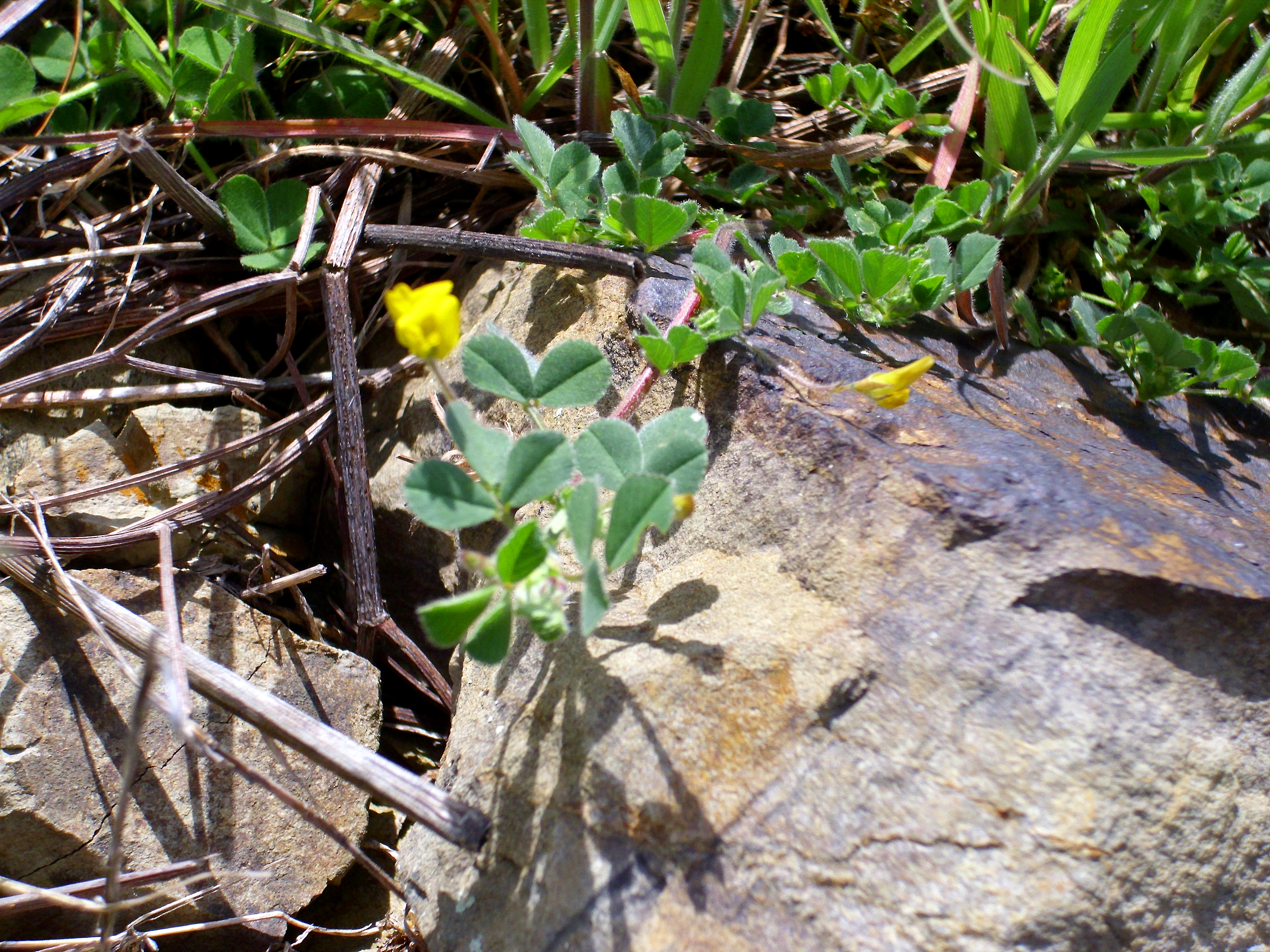 Medicago truncatula habit, Dehesa Boyal de Puertollano, Spain